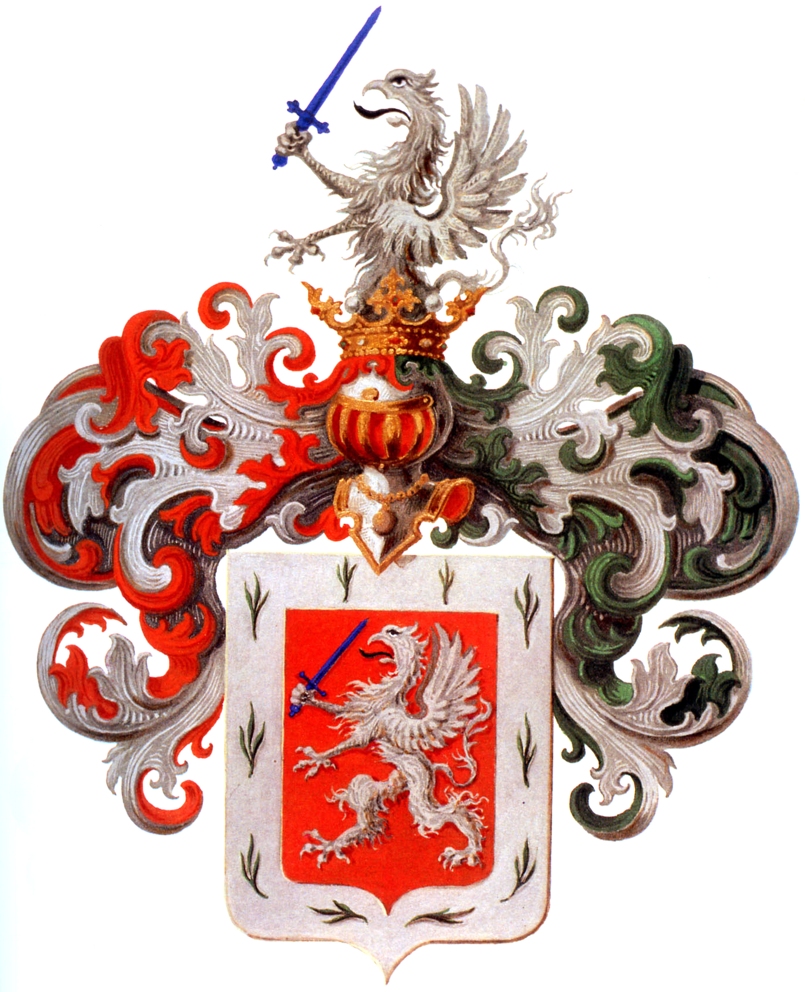 Coat of Arms of family Grass